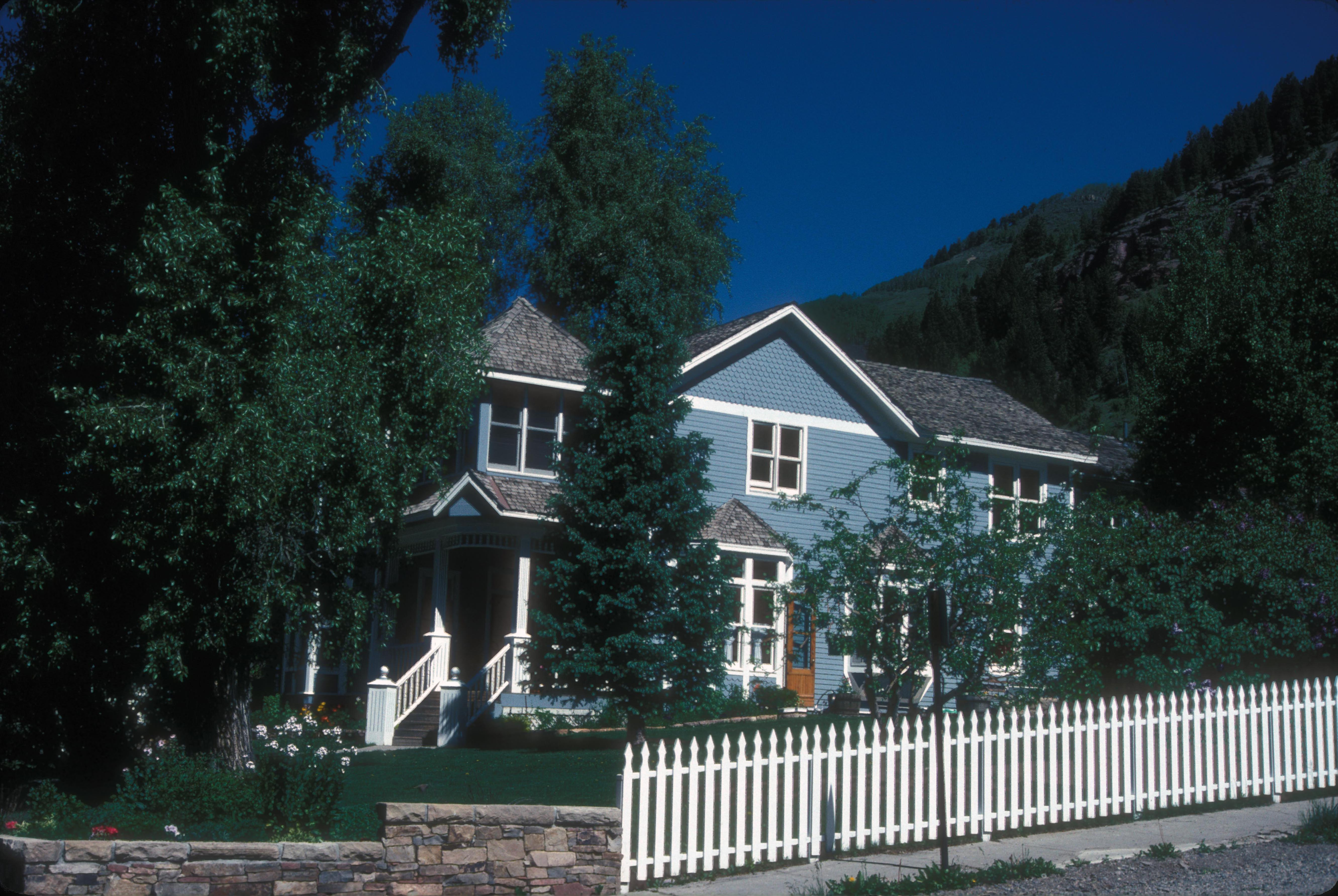 L.L. NUNN HOUSE; AN ELECTRICAL GENIUS WHO SUPPLIED HIGH-VOLTAGE ALTERNATING CURRENT TO THE MINES TO REPLACE COAL AND WOOD; HE CONVINCED GEORGE WESTINGHOUSE TO PROVIDE THE GENERATORS AND NICOLA TESLA TO DESIGN THE MOTORS